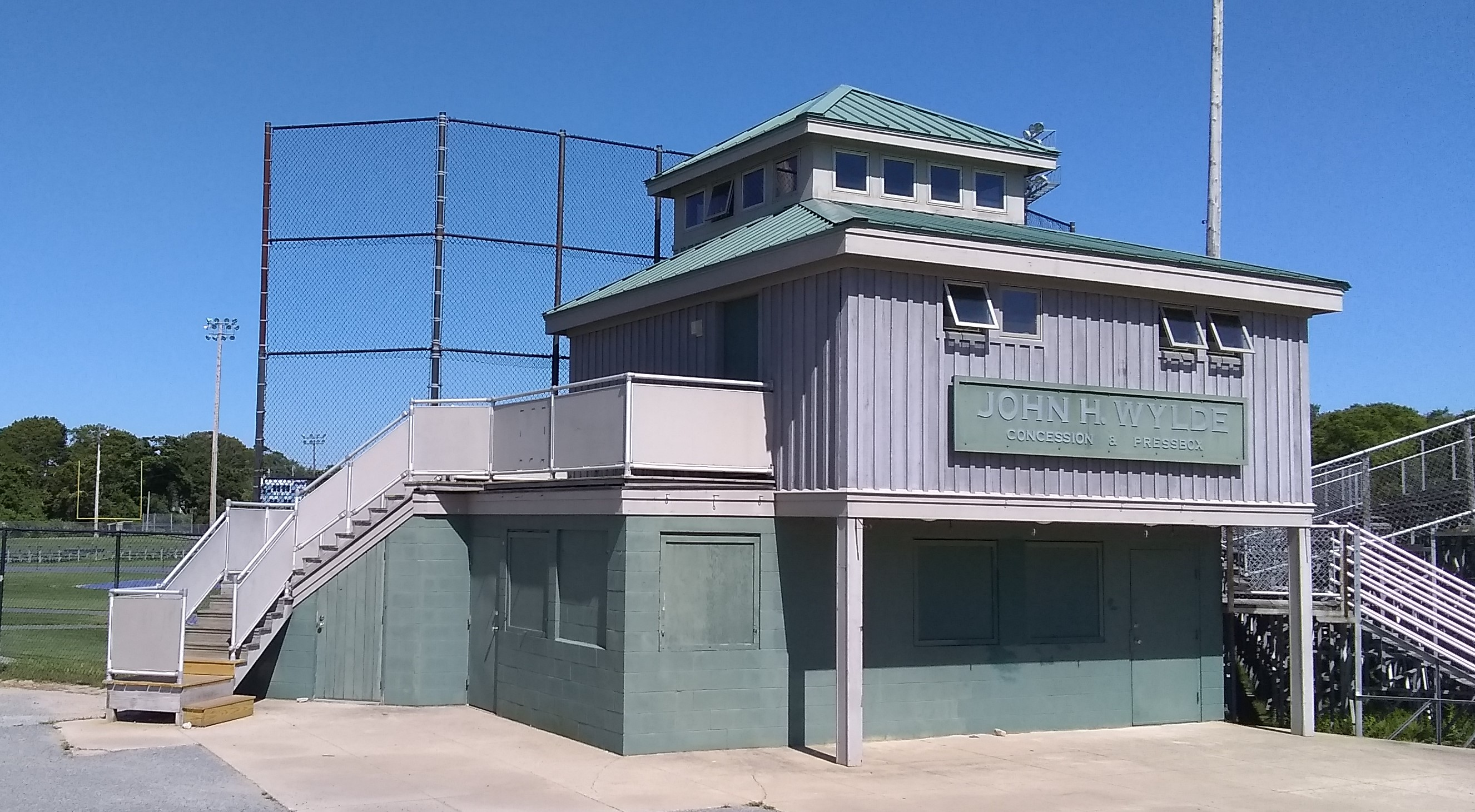 Clem Spillane Field, Wareham, Massachusetts, 2019